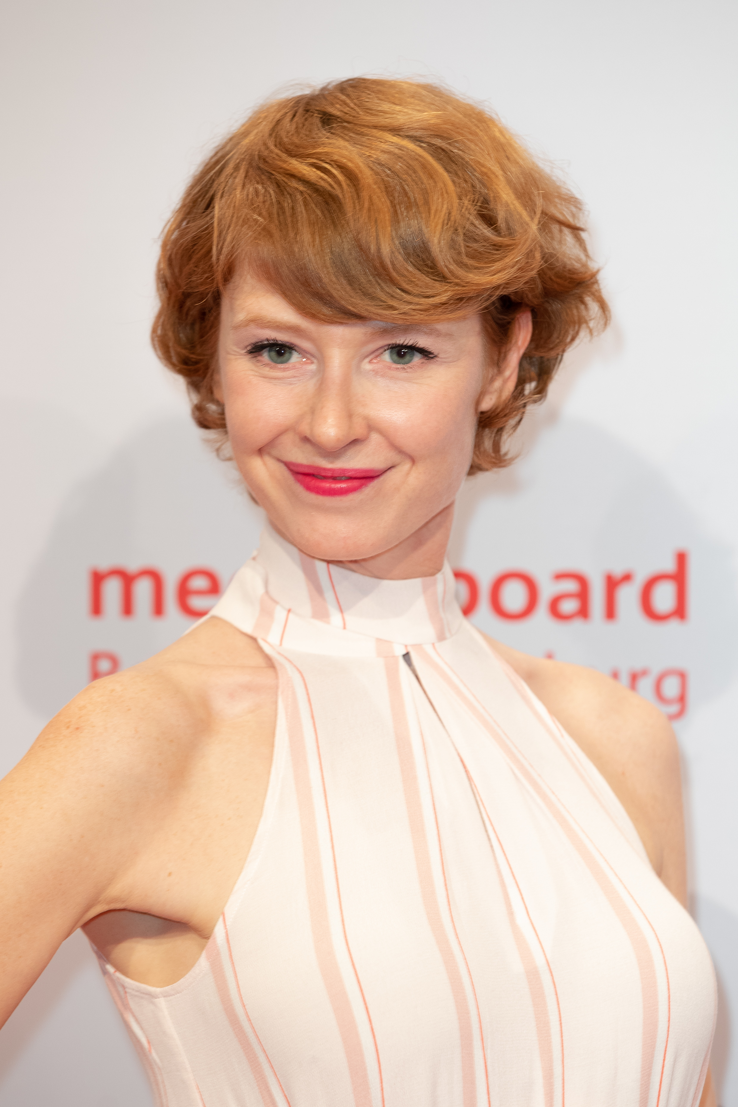 Actress Sarah Bauerett at the Medienboard Party on the occasion of the 69th Berlinale in Ritz-Carlton, Potsdamer Platz